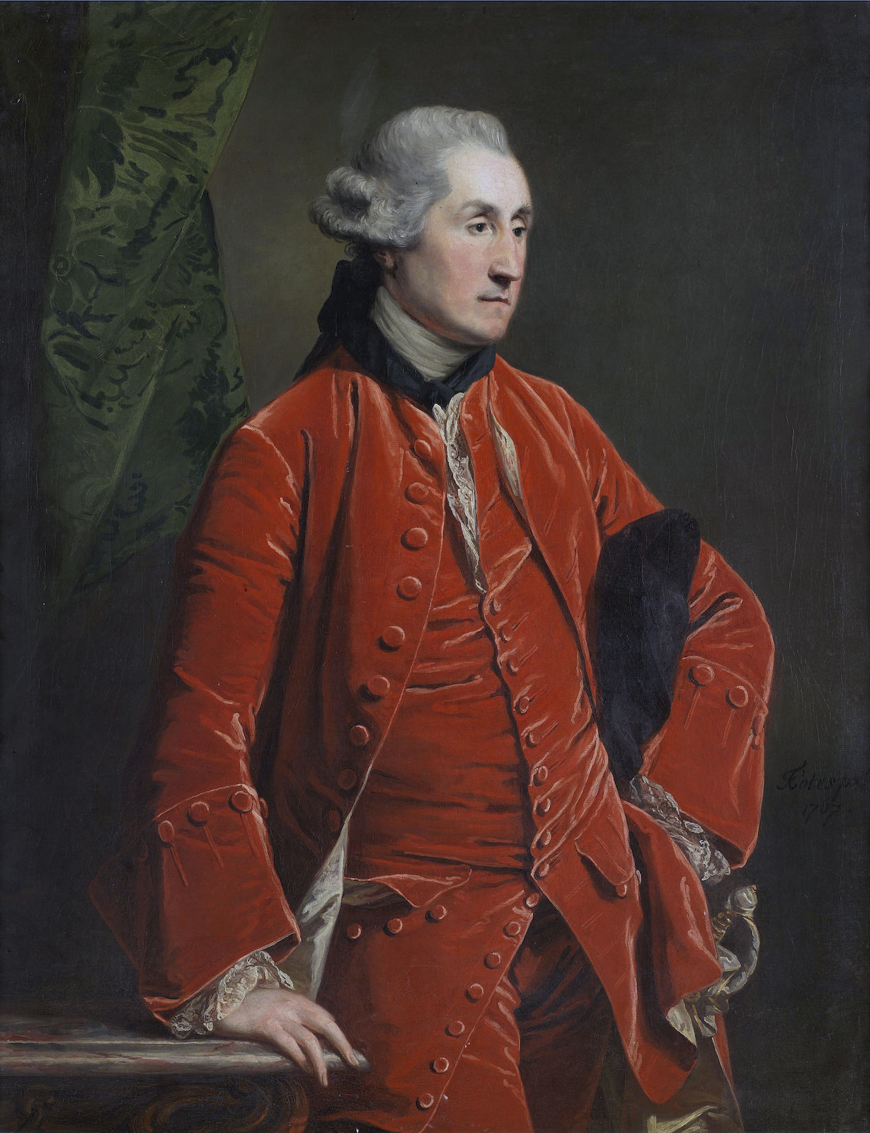 Robert Francis Burdett, 4th bt. oil on canvas 126.3 x 100.2 cm signed b.r.: 'FCotes px.t / 1767